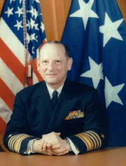 Depicted person: Horacio Rivero, Jr. – first Puerto Rican and Hispanic four-star Admiral, and second Hispanic to become a full Admiral in the modern United States Navy